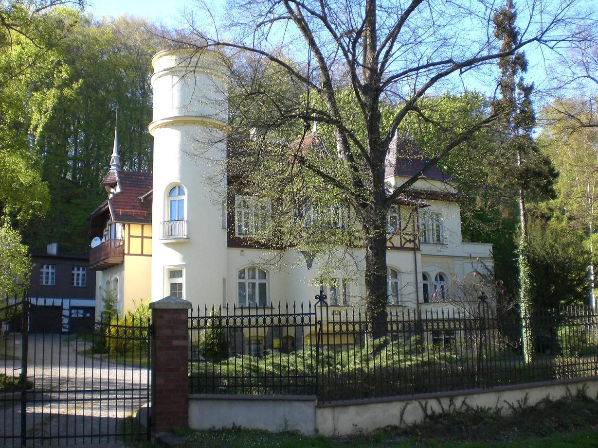 Jaśkowa Dolina Street in Gdańsk.